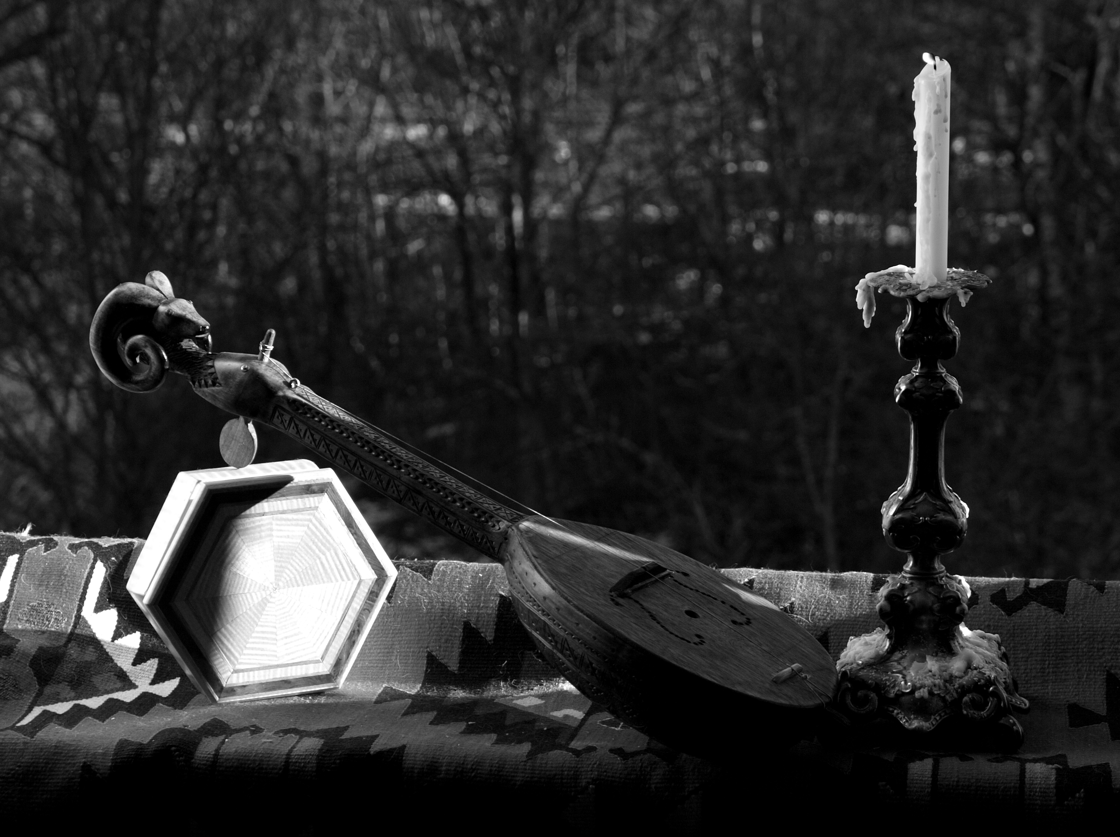 Old serbian gusle, the one sting fiddle accompaning the epic singer of folk Songs in the decasyllabic meter